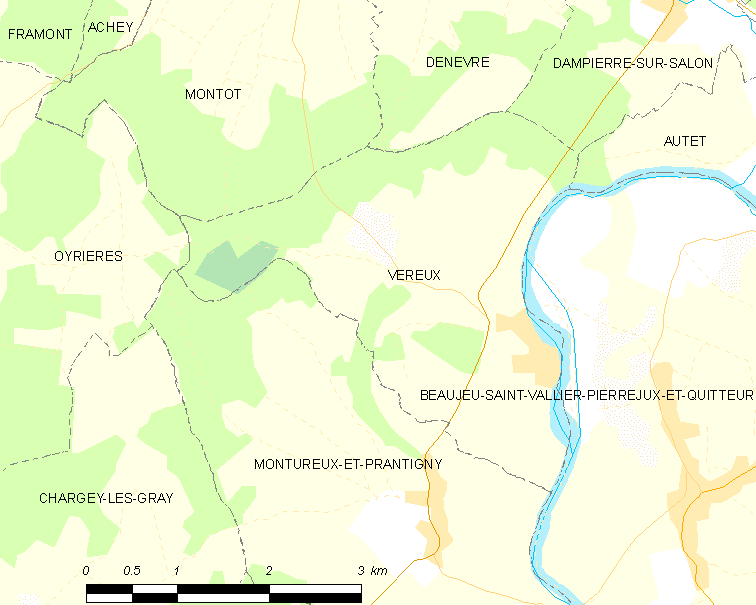 Map of French municipality